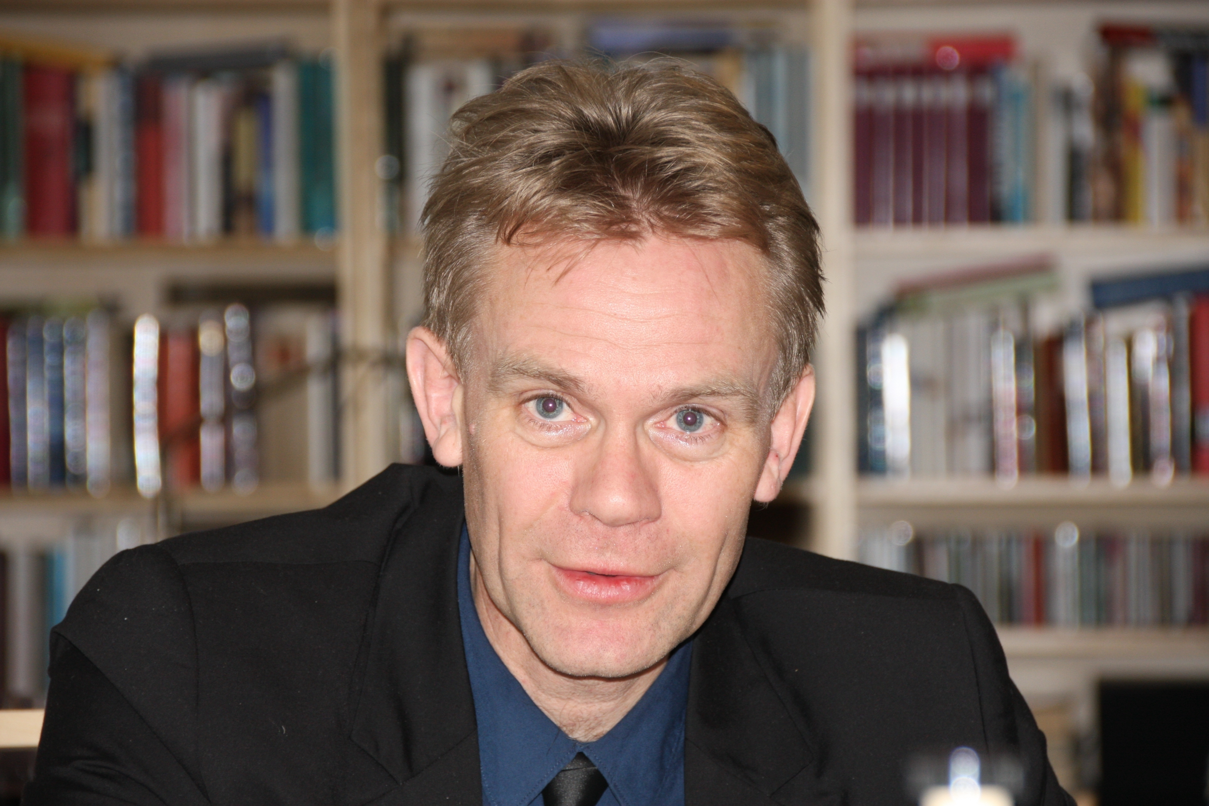 Per Botolf Maurseth, former State Secretary of the Ministry of Education, Norway. Economist at Norwegian School of Business Administration (BI) and Researcher at NUPI.